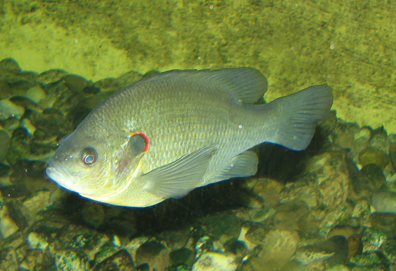 Redear sunfish (Lepomis microlophus) at the Louisville Zoo